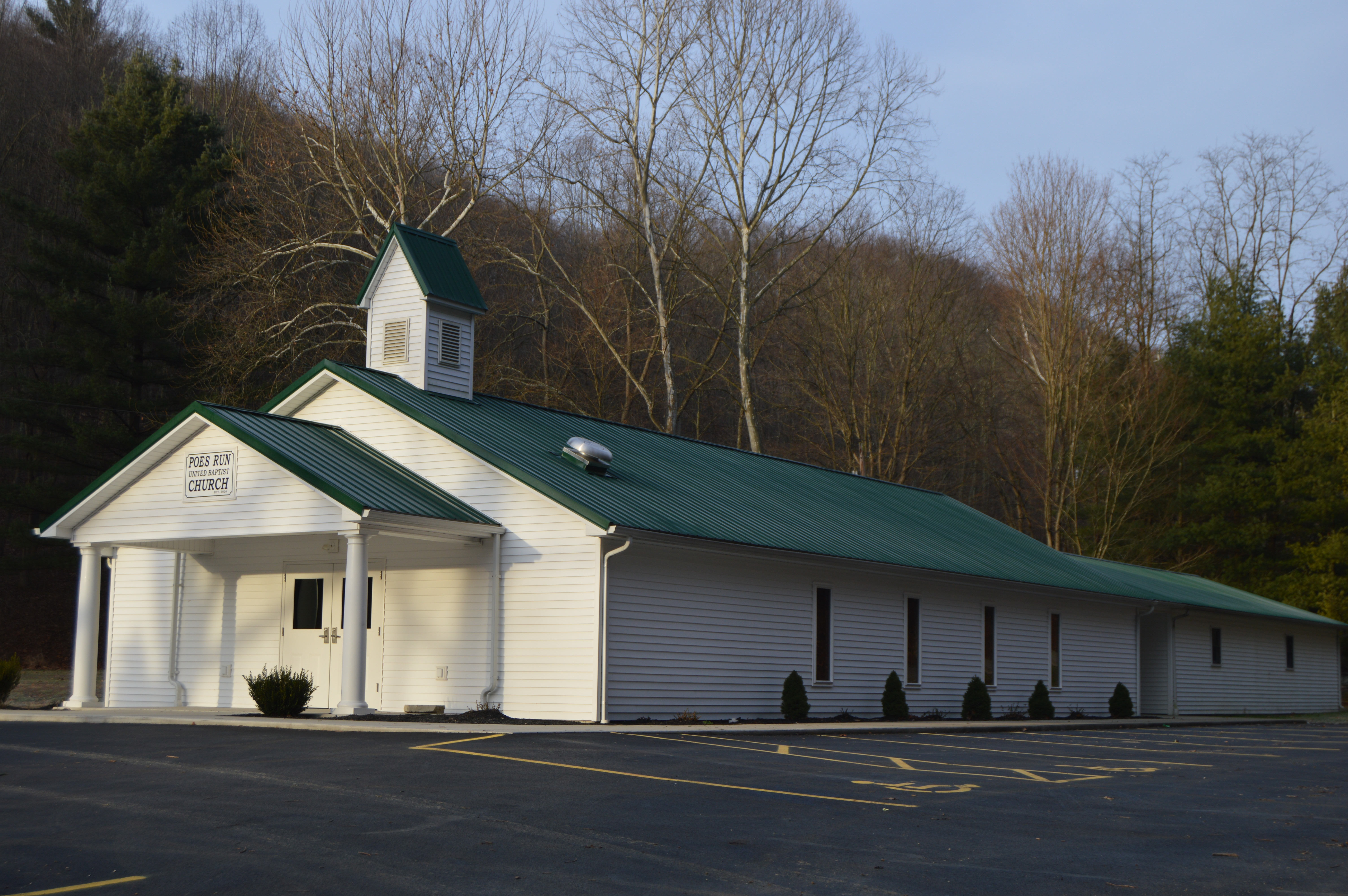 Front and northern side of the Poes Run United Baptist Church, located on Skaggs Road in southern Harrison Township, Ross County, Ohio, United States.